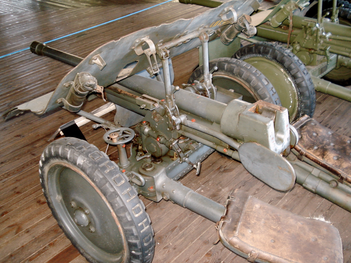 Swedish Bofors 37 mm anti-tank gun, displayed in Finnish Tank Museum (Panssarimuseo) in Parola. This image shows the gun sight. Photo taken on July 14, 2006. Source: Photo by me, User:Balcer.